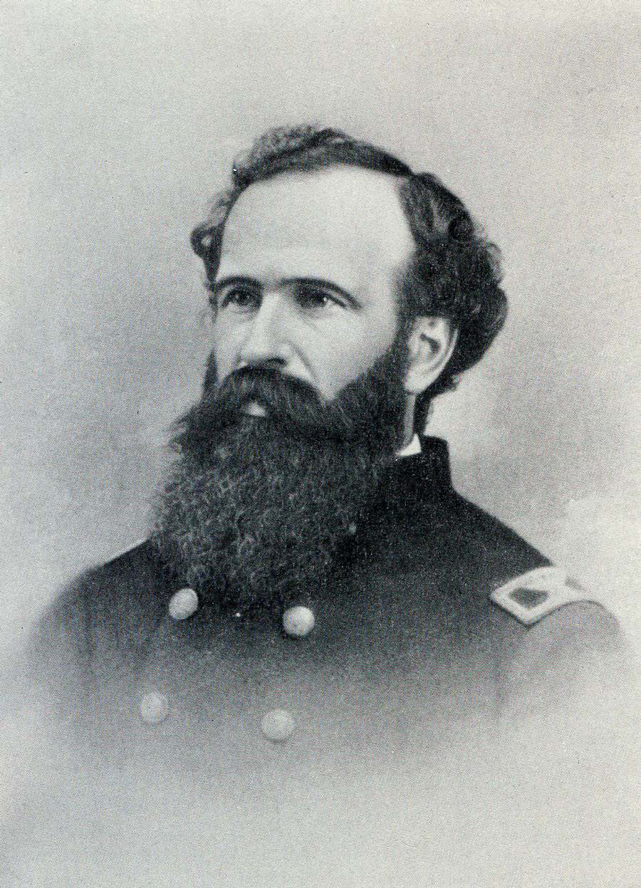 Photographs scanned from public domain book: Brown, J. Willard, The Signal Corps, U.S.A. in the War of the Rebellion, U.S. Veteran Signal Corps Association, 1896, (reprinted by Arno Press, 1974), ISBN 0-405-06036-X.